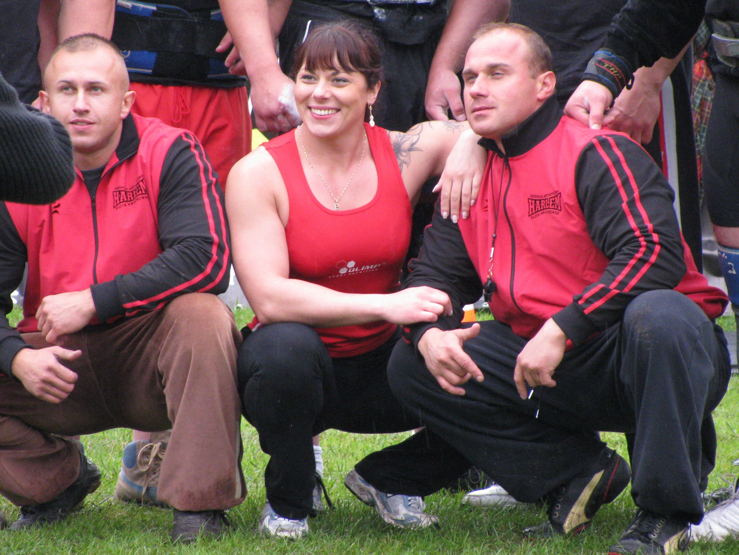 Aneta Florczyk - World's Strongest Woman